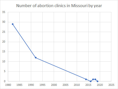 Number of abortion clinics in Missouri by year. Data is from articles linked at